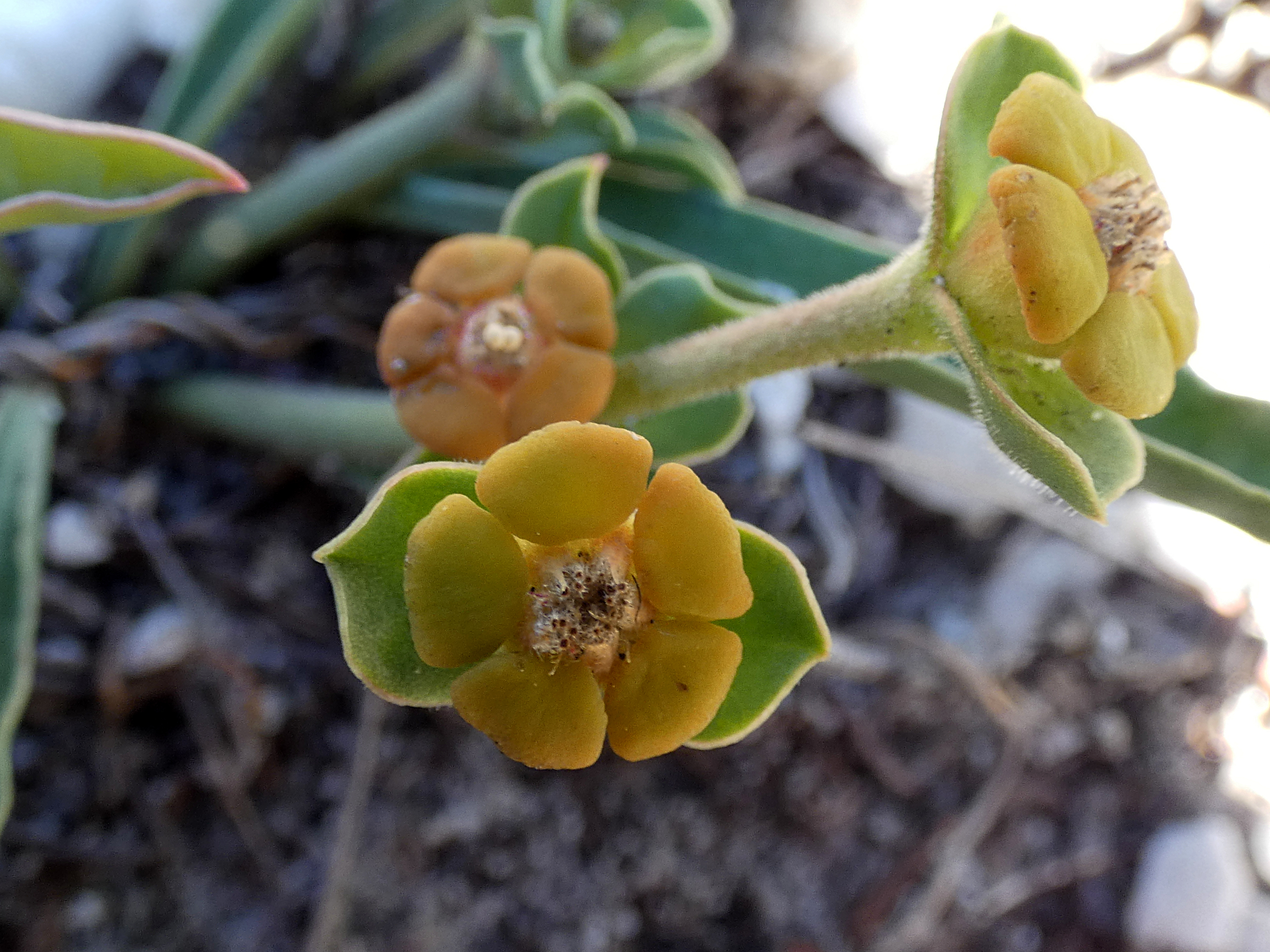 the spurge species Euphorbia tuberosa, photographed at Hangklip, near Pringle Bay, Western Cape, Zuid-Afrika